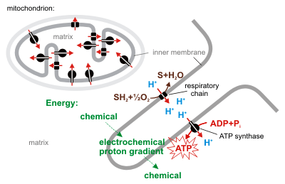 Chemiosmotic coupling in mitochondrium.